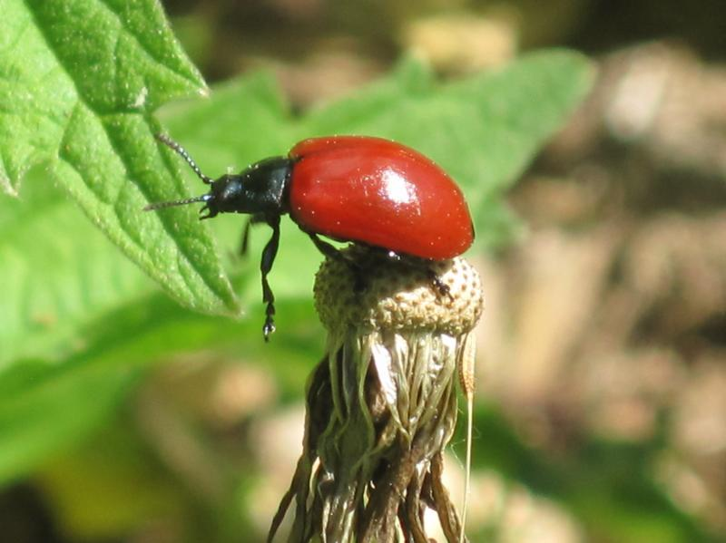 Chrysomela populi (Chrysomelidae sp.), Elst (Gld), the Netherlands